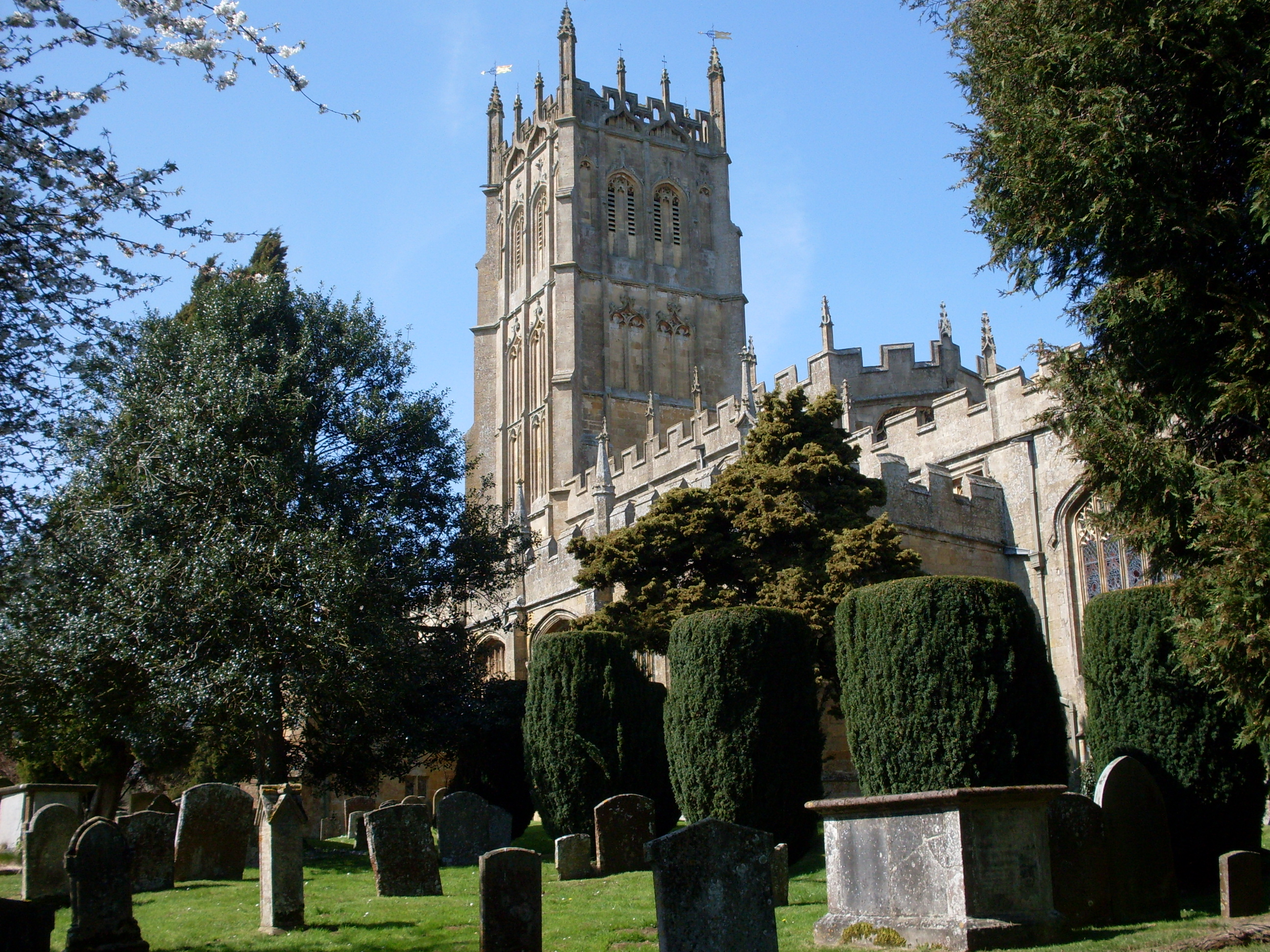 Chipping Campden Saint James church